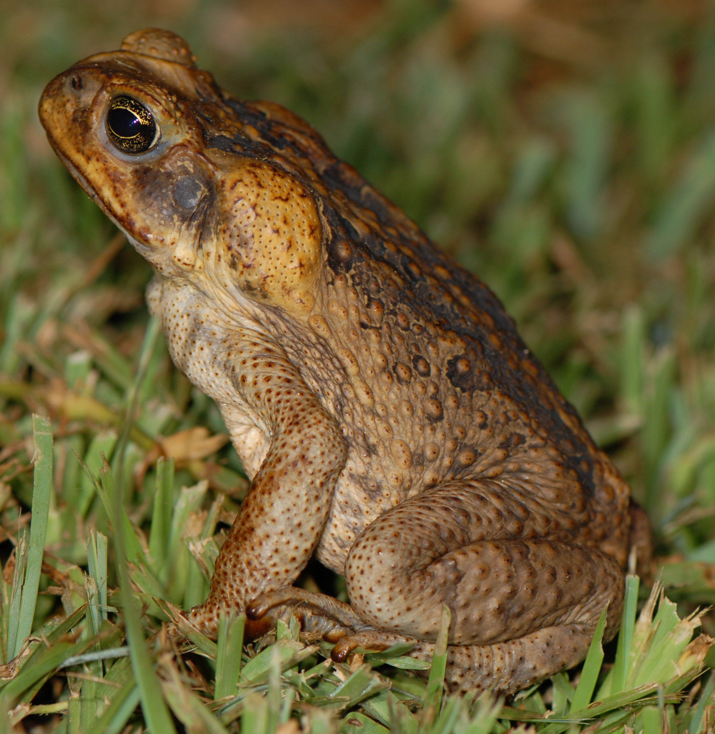 Bufo marinus BDA: 32�19' 59" N x 64�42' 29" W22 Harrington Sound RoadHamilton Parish, Bermuda